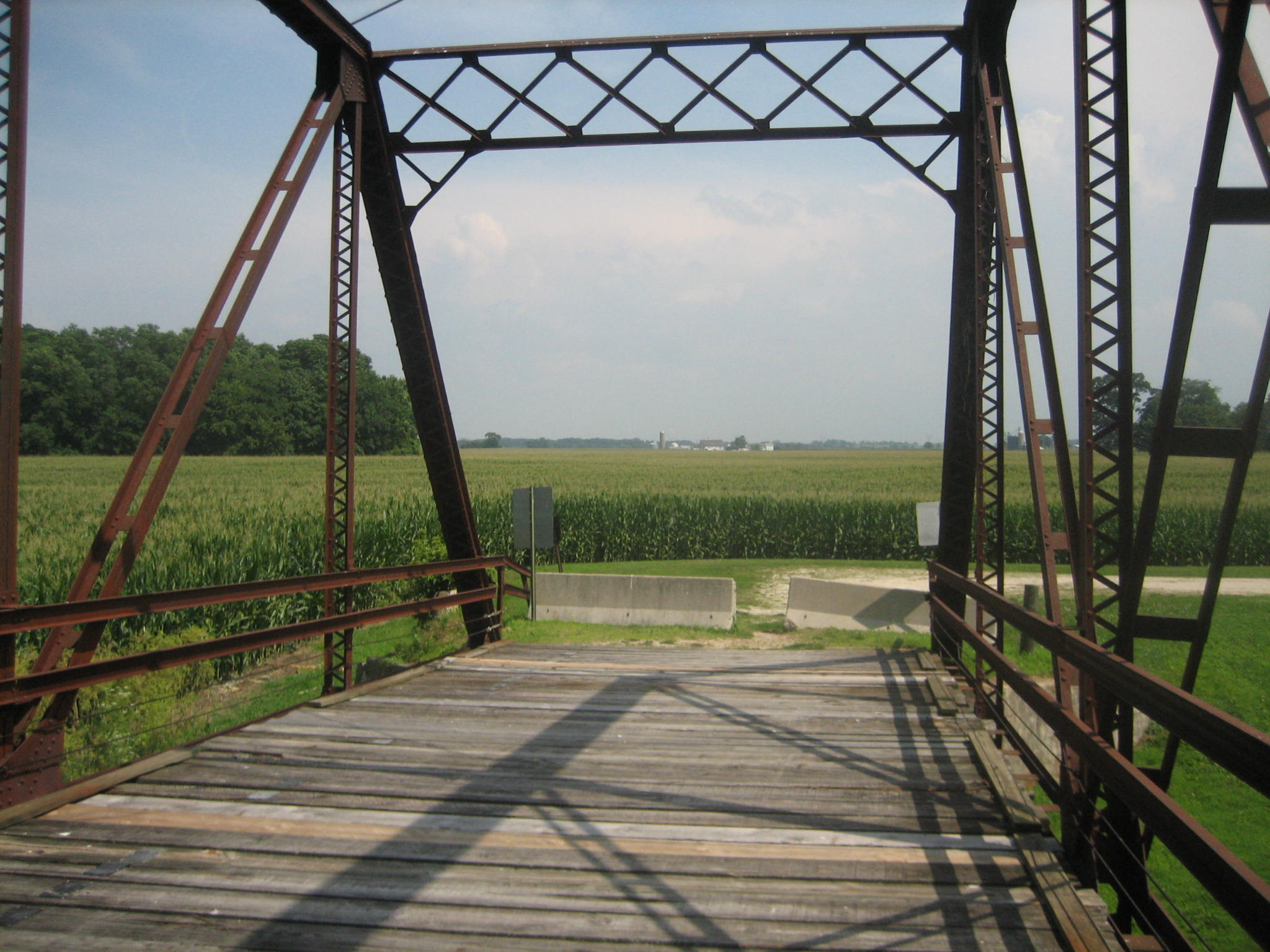 Lyndon Bridge, Lyndon, Illinois. U.S. National Register of Historic Places.